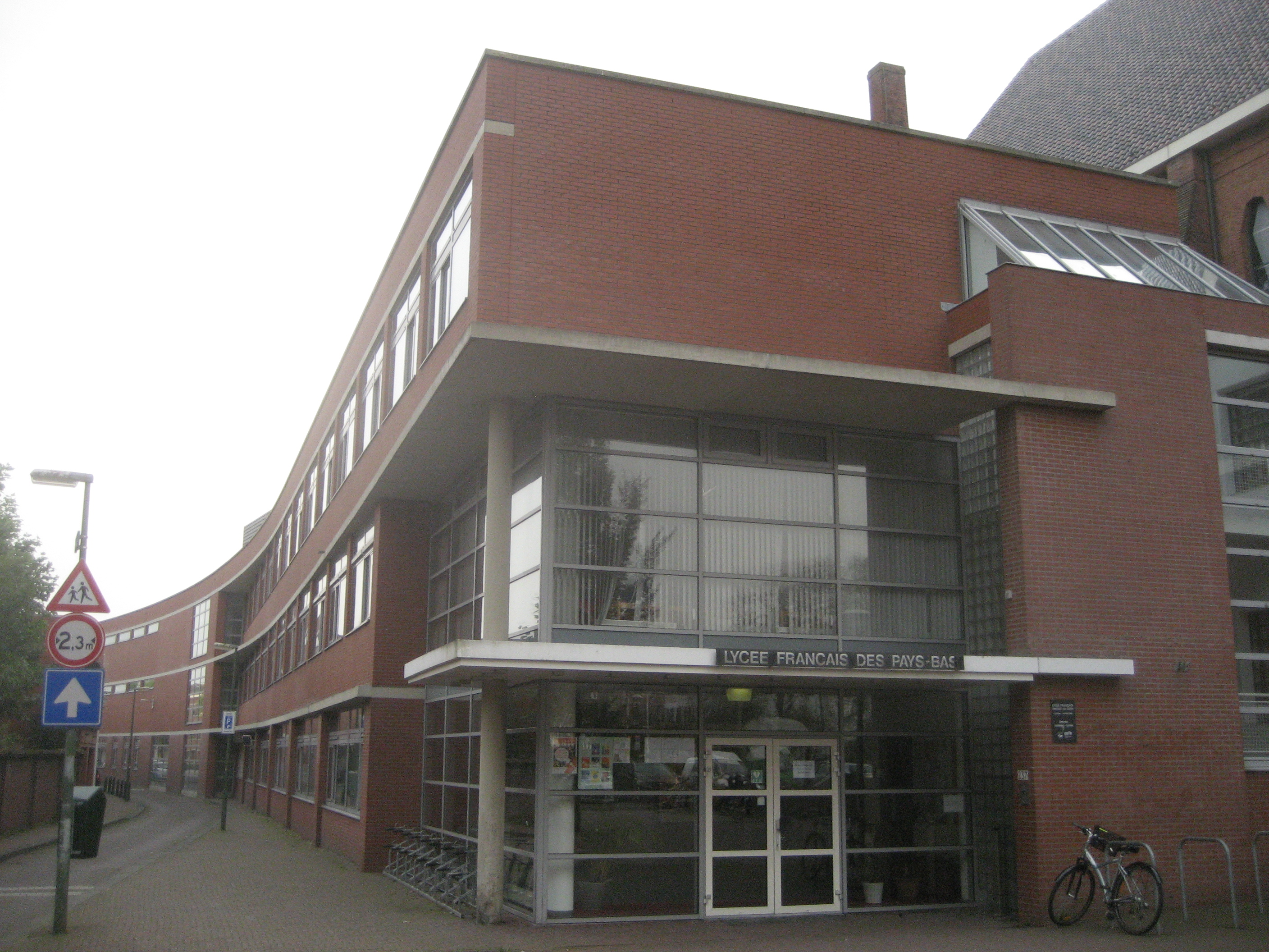 Lycée français Vincent van Gogh. The Hague, Netherlands